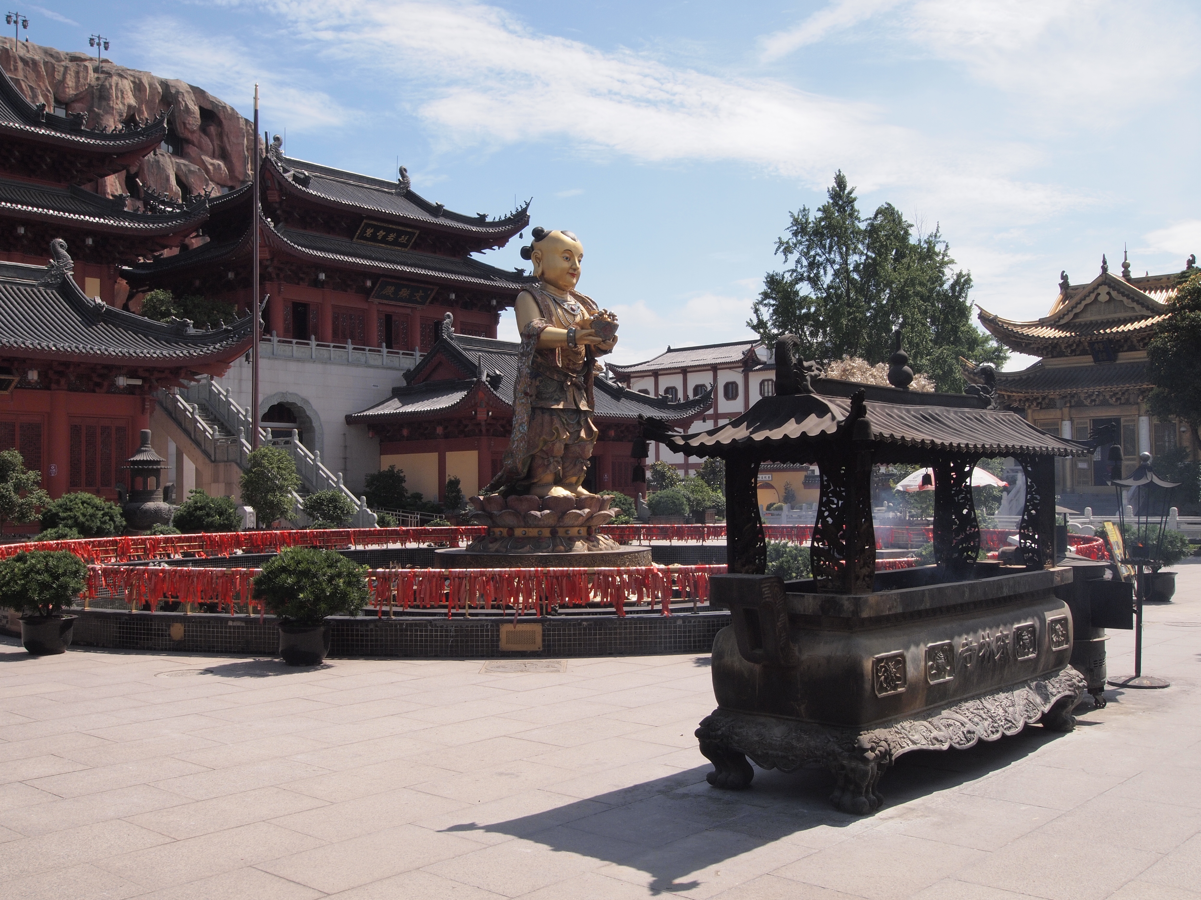 Donglin Temple Shanghai